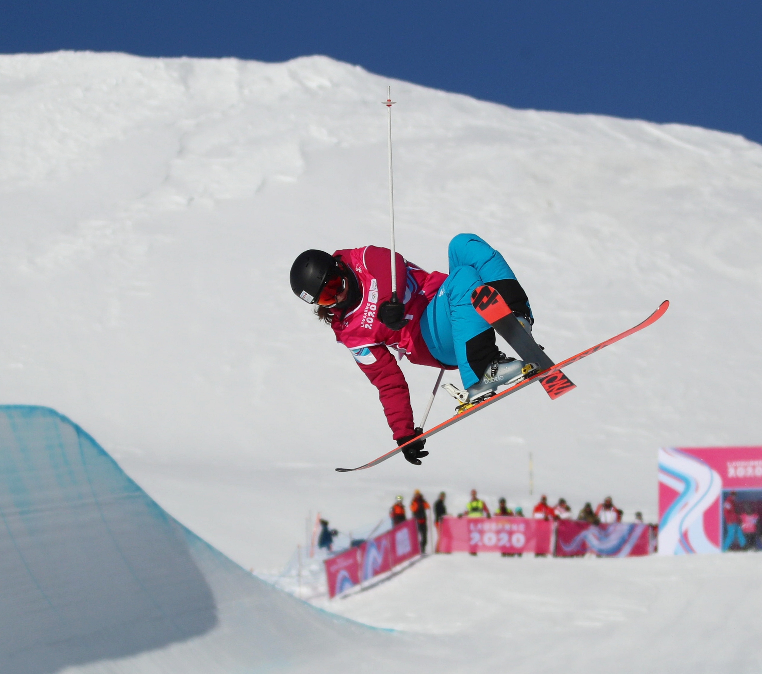 Warm-up run of Freestyle skiing – Women's Halfpipe at the 2020 Winter Youth Olympics in Lausanne on 20 January 2020.